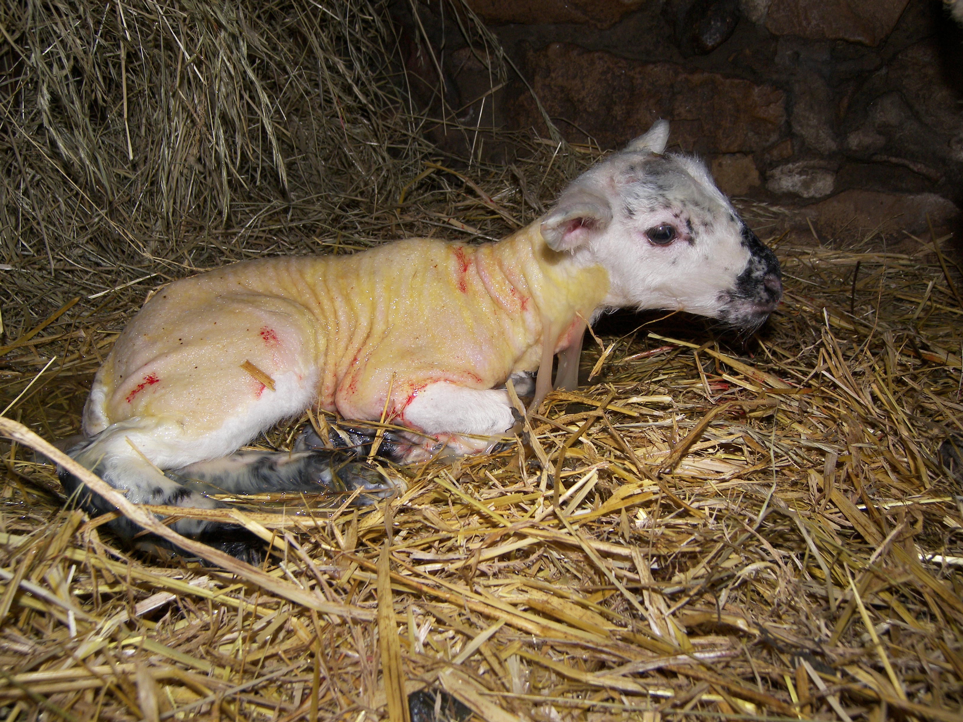 Birth of a lamb